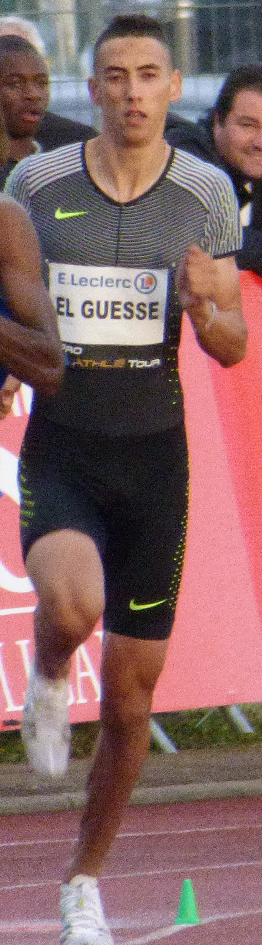 2017 Meeting Stanislas